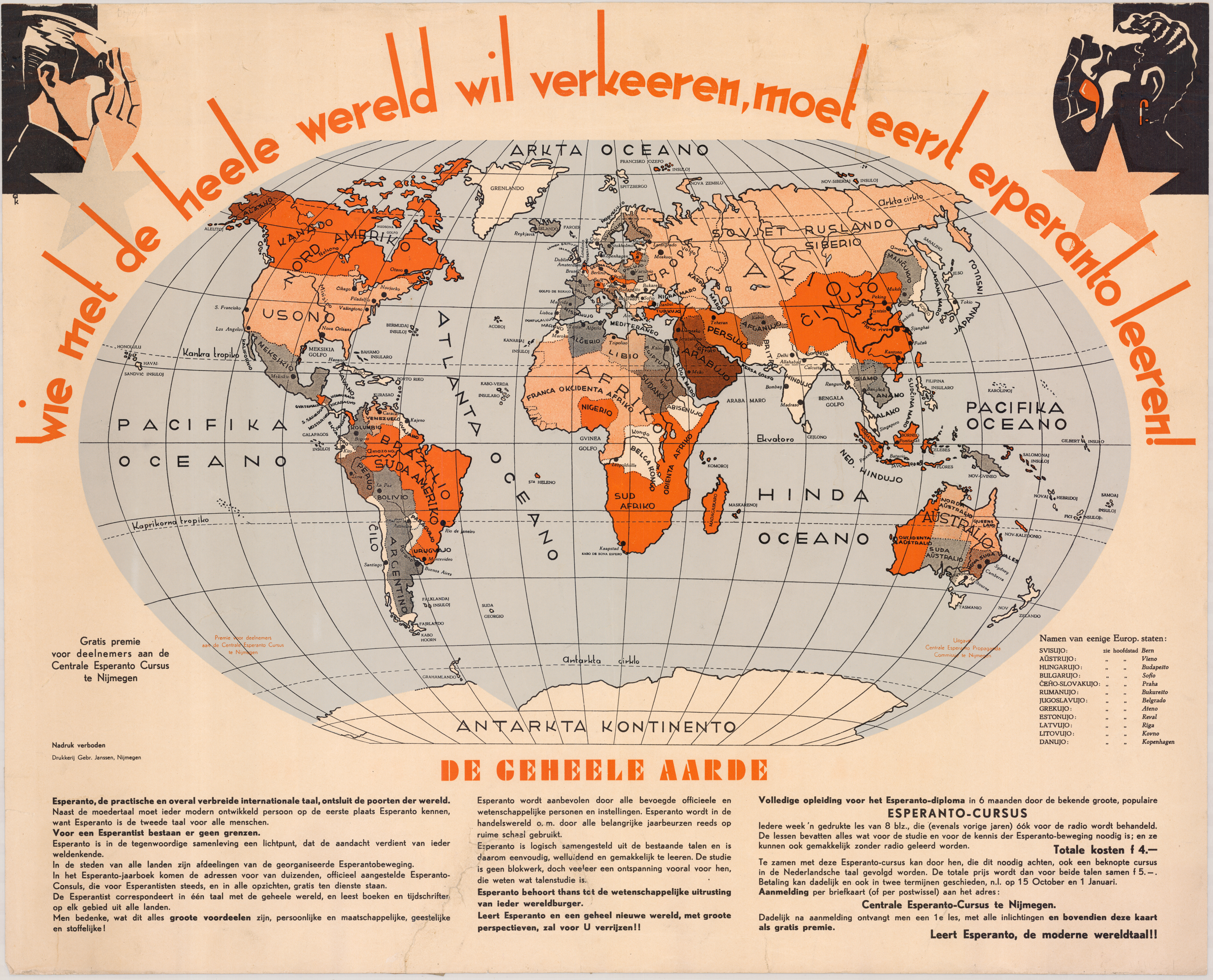 Promotional map for an Esperanto course offered by the Esperanto Center at Nijmegen in the Netherlands, probably in 1930. It was distributed freely to students of the six-month course. Map labels are in Esperanto, while the accompanying text is in Dutch. The two figures at the top, one black and other white, shout at each other from opposite ends of the map. The text below the map describes a six-month course to be offered in Nijmegen, promotes the benefits of Esperanto, and expresses optimism about its spread worldwide.